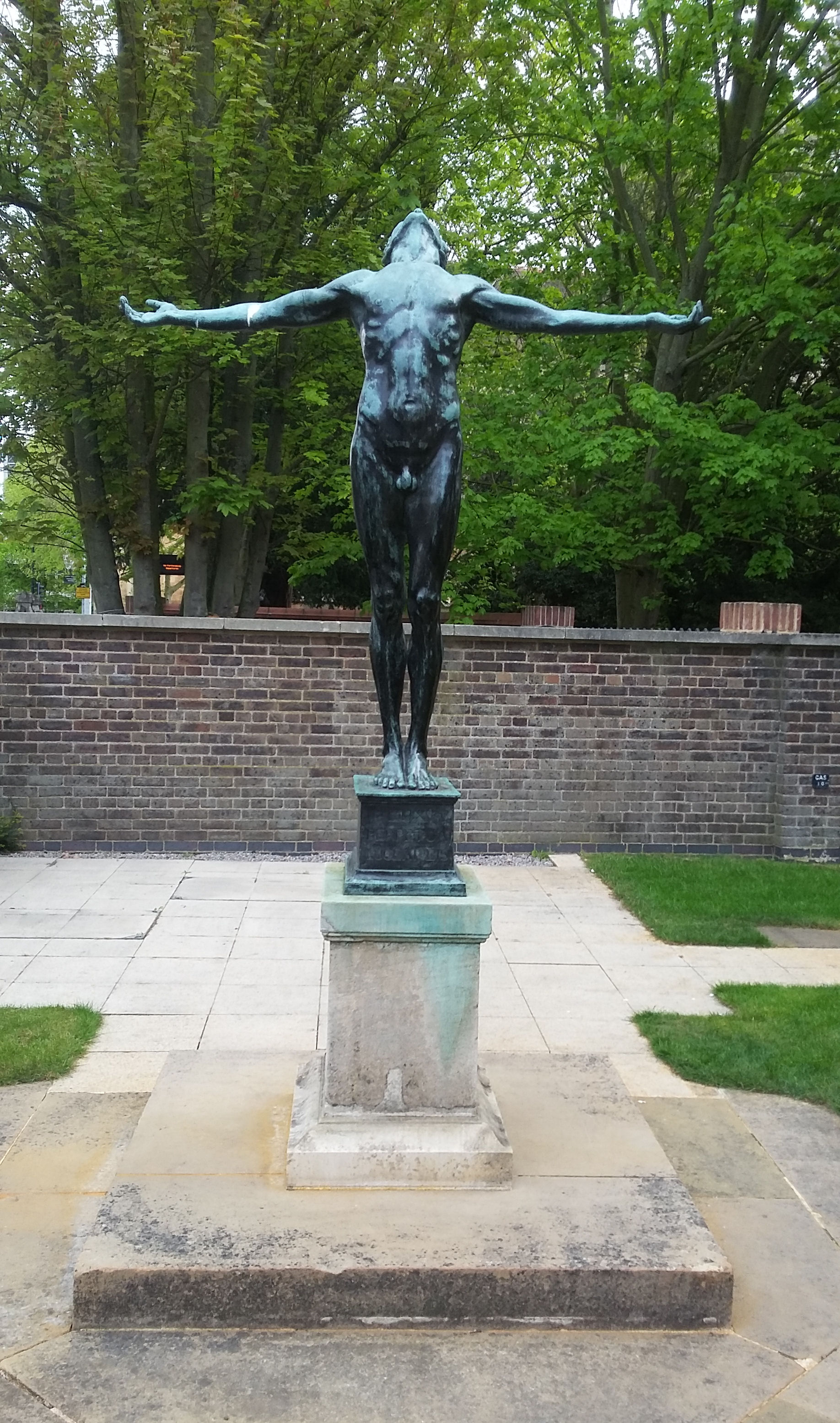 A.W. Lawrence was the model for "Youth" (1920) by Kathleen Scott. The sculpture is located outside the Scott Polar Institute in Cambridge